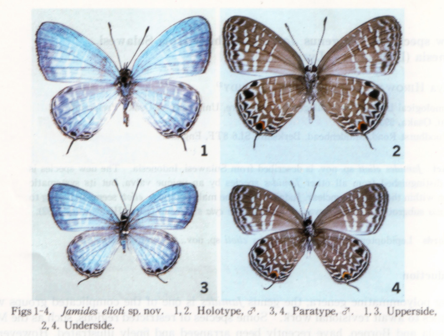 Jamides elioti, holotype male, set specimens, Sulawesi, Alan Cassidy photo.